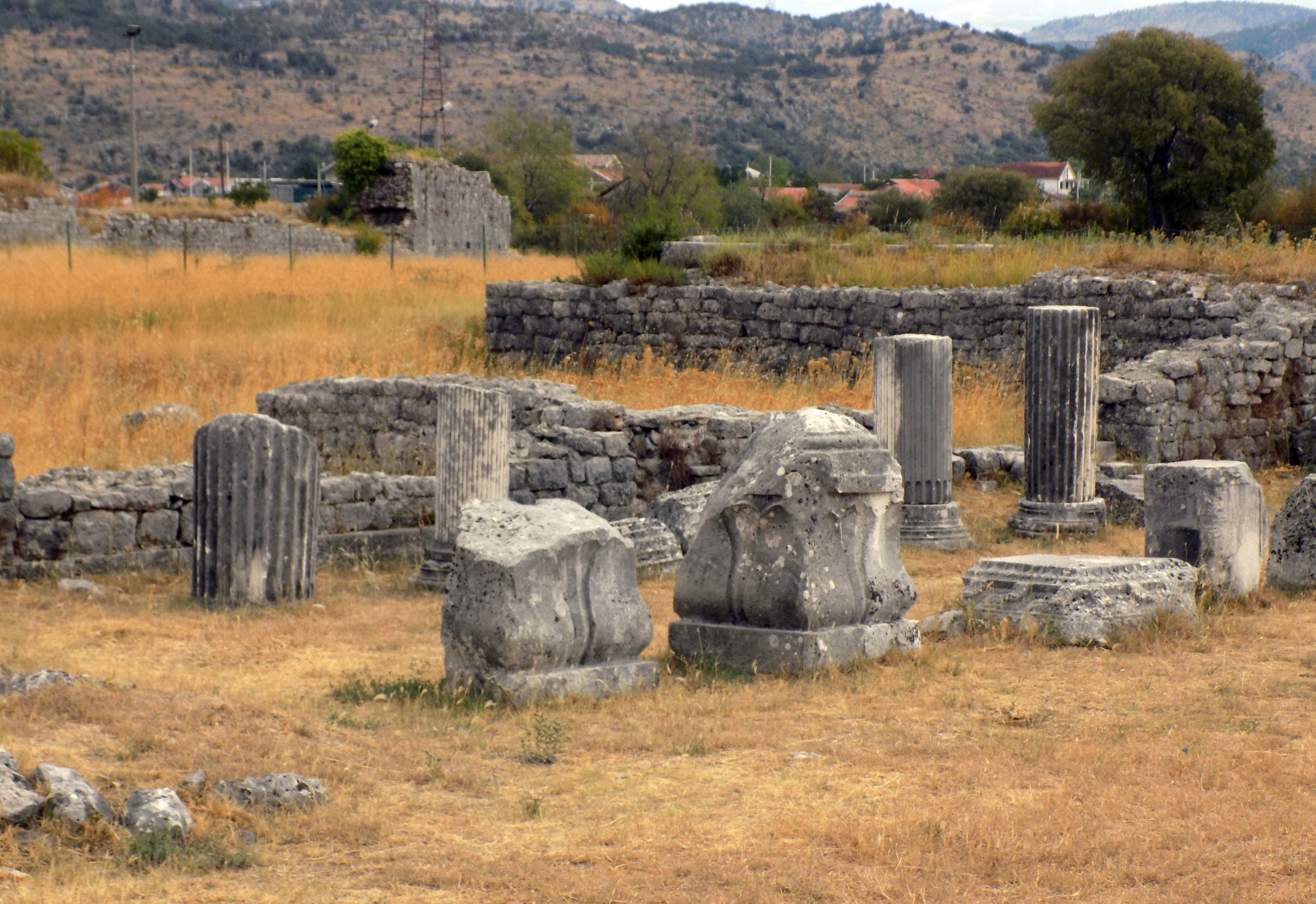 Ruins of the ancient city of Doclea, archaeological site Duklja near Podgorica, Montenegro